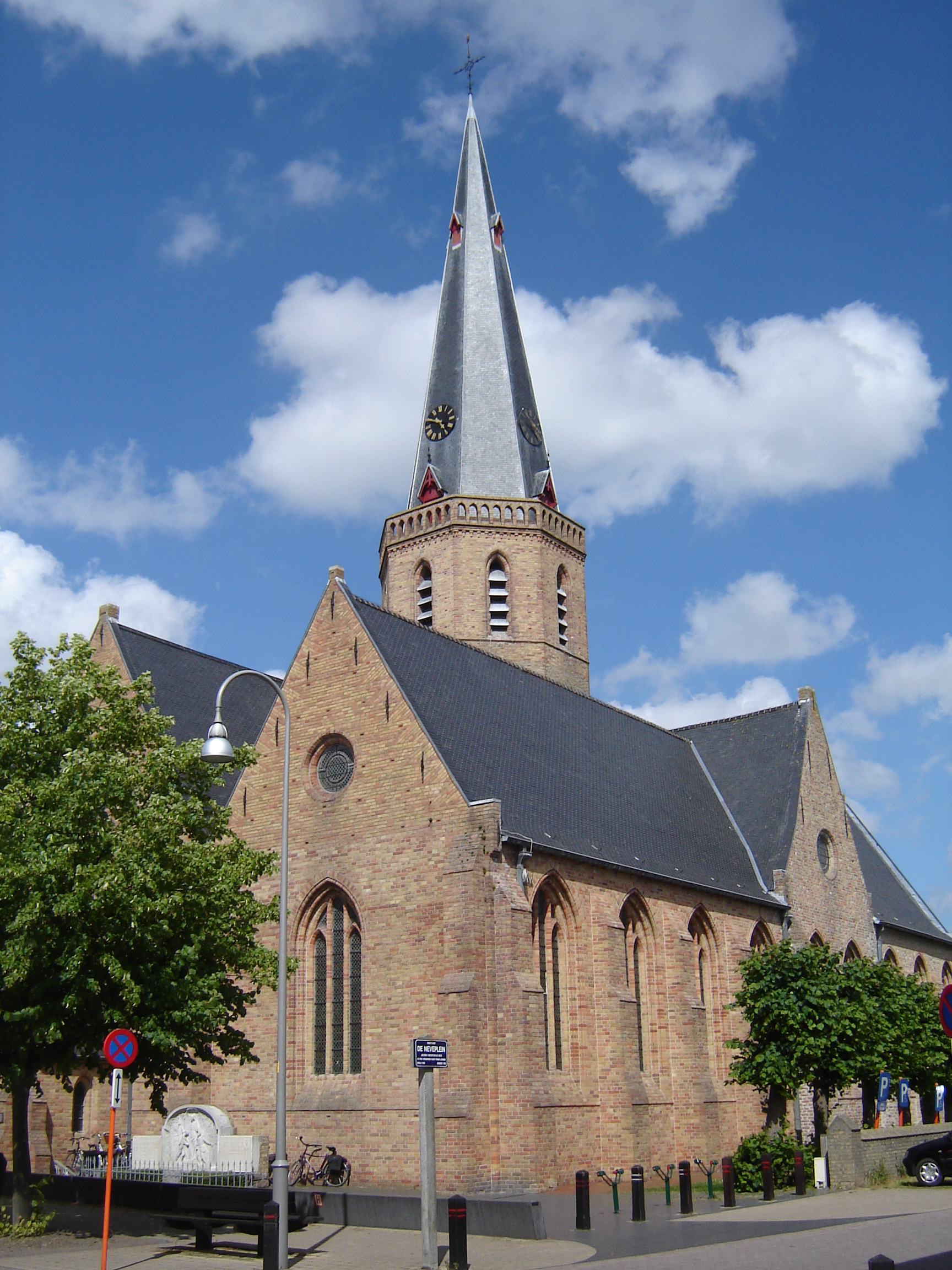 Church of Saint Nicholas in Westkapelle. Westkapelle, Knokke-Heist, West Flanders, Belgium